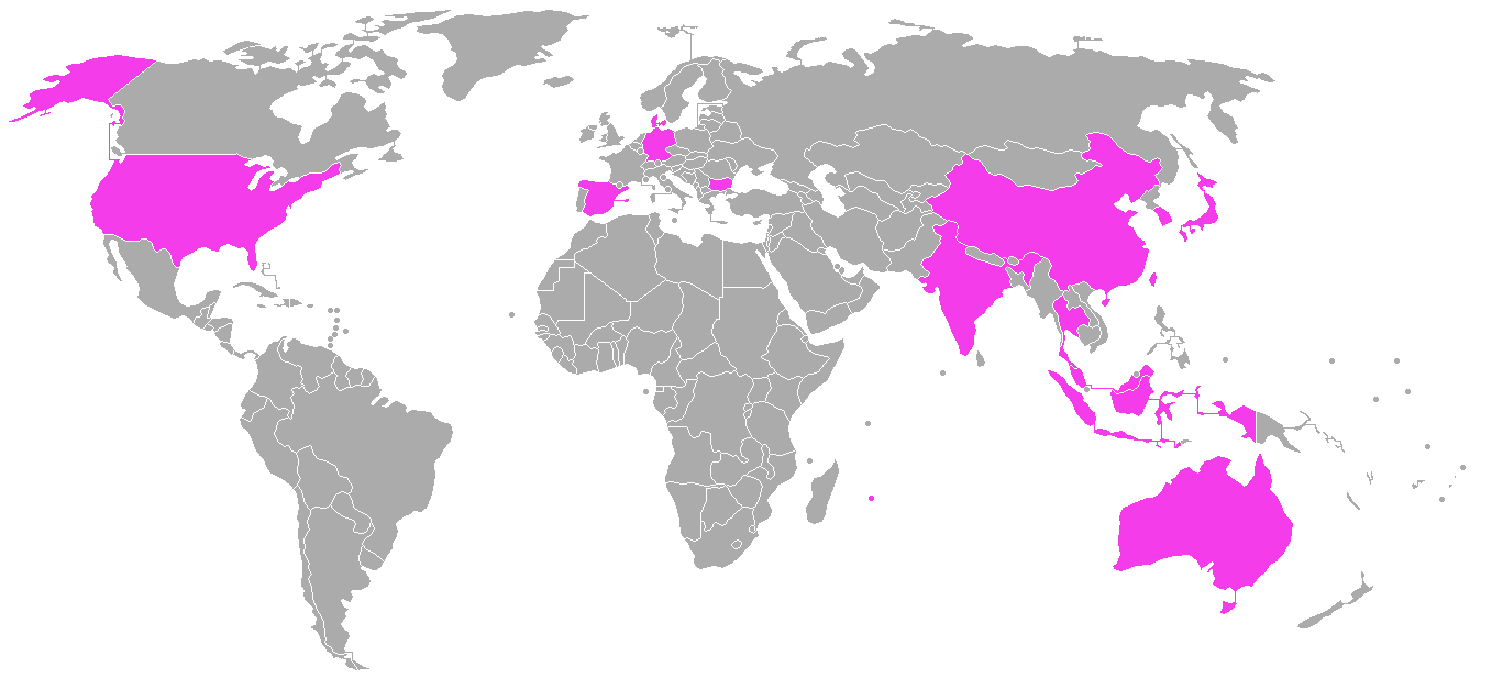 Participating nations in Uber Cup 2016.